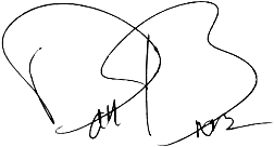 Dan Brown's signature